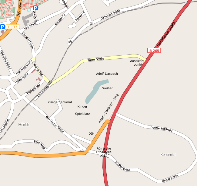 This map may be incomplete, and may contain errors. Don't rely solely on it for navigation.